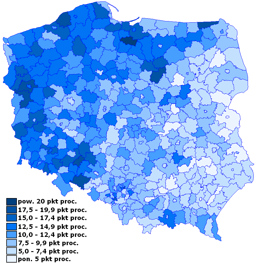 The drop of unemployement in Poland at the end of March 2008 - compared to March 2004 - in percentage points; by counties